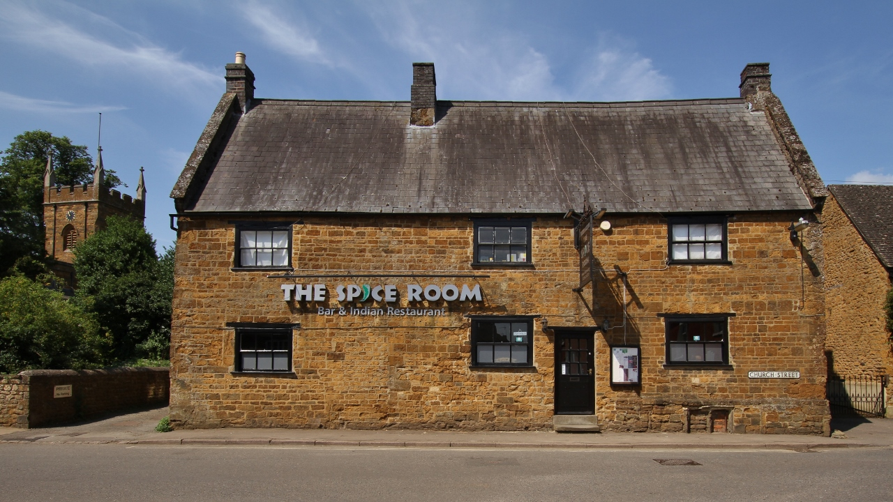 The Spice Room bar and Indian restaurant, Church Street, Bodicote, Oxfordshire, seen from the east. Formerly the Baker's Arms pub. On the left is the west tower of the parish church of St John the Baptist.